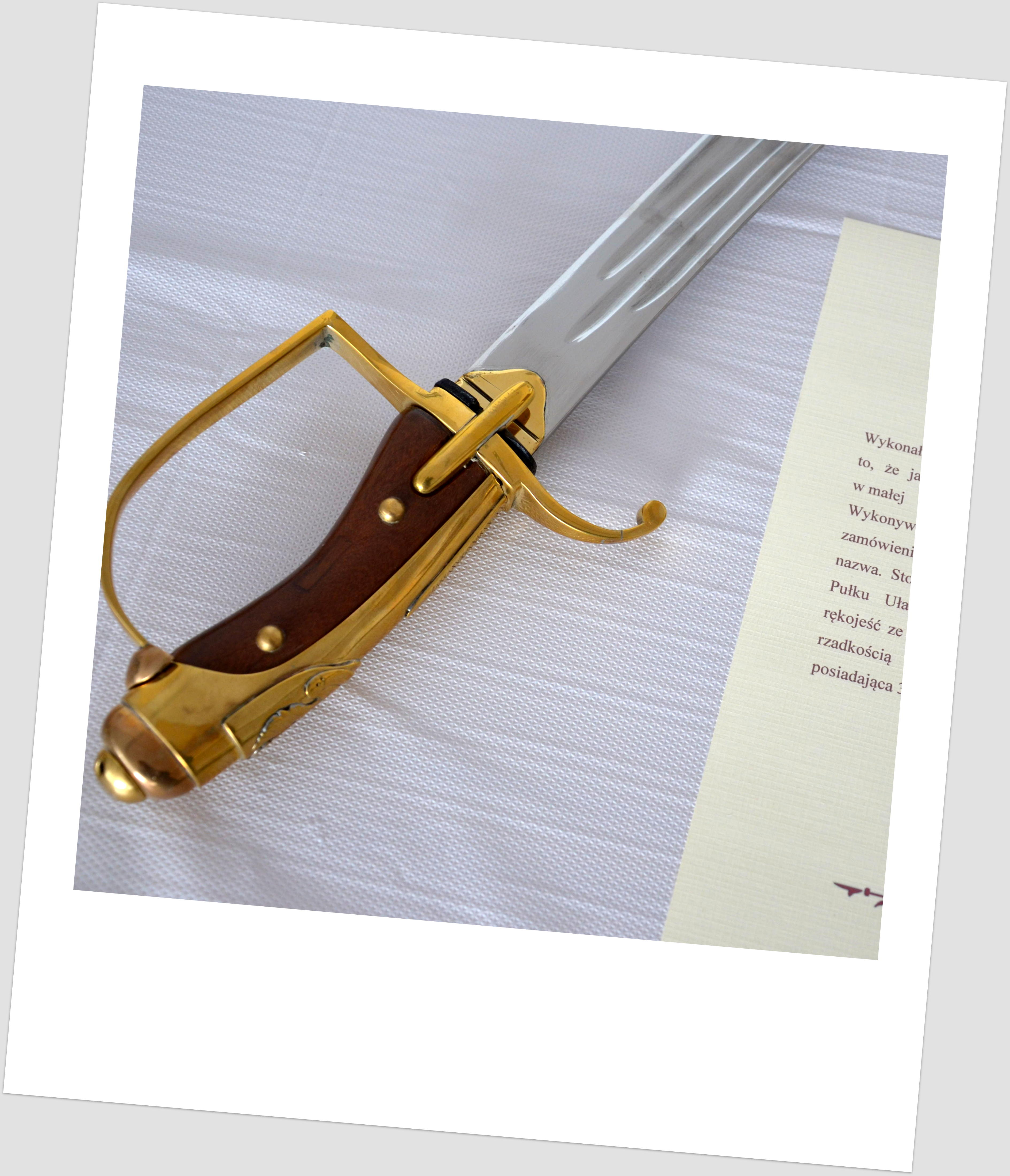 Polnischer Kavalleriesäbel Krechowiacka M 1919